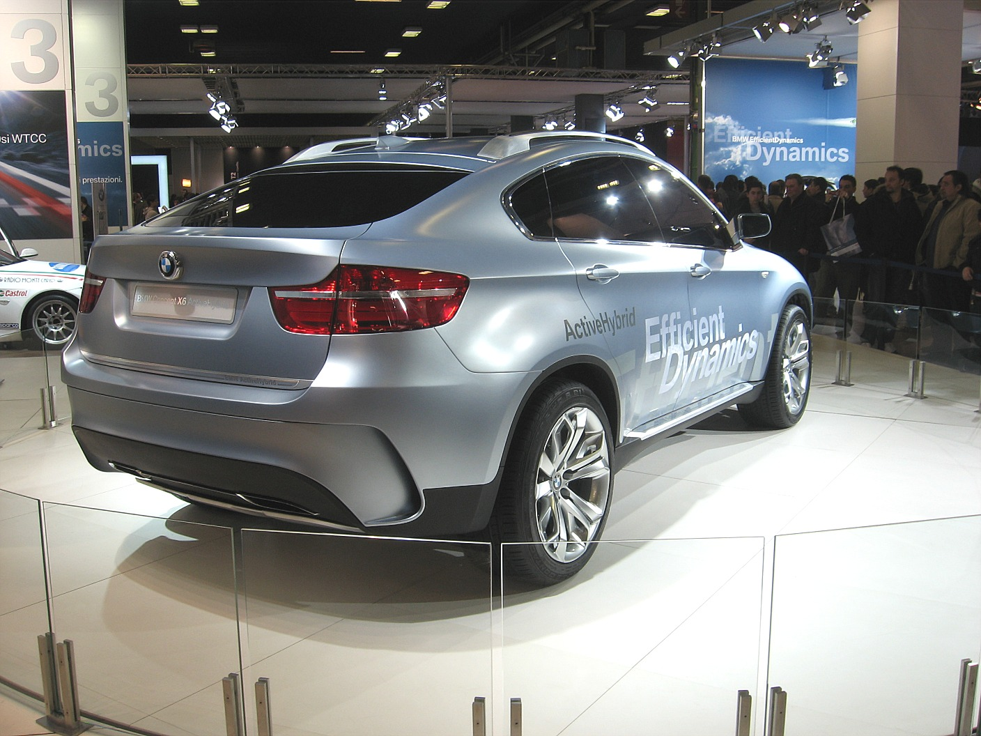 Subject:BMW X6 Active Hybrid Author:Luc106 Date:December 13th, 2007 Event:Motor Show Bologna 2007 Place/Country: Bologna, Italy I release all rights in the public domain.